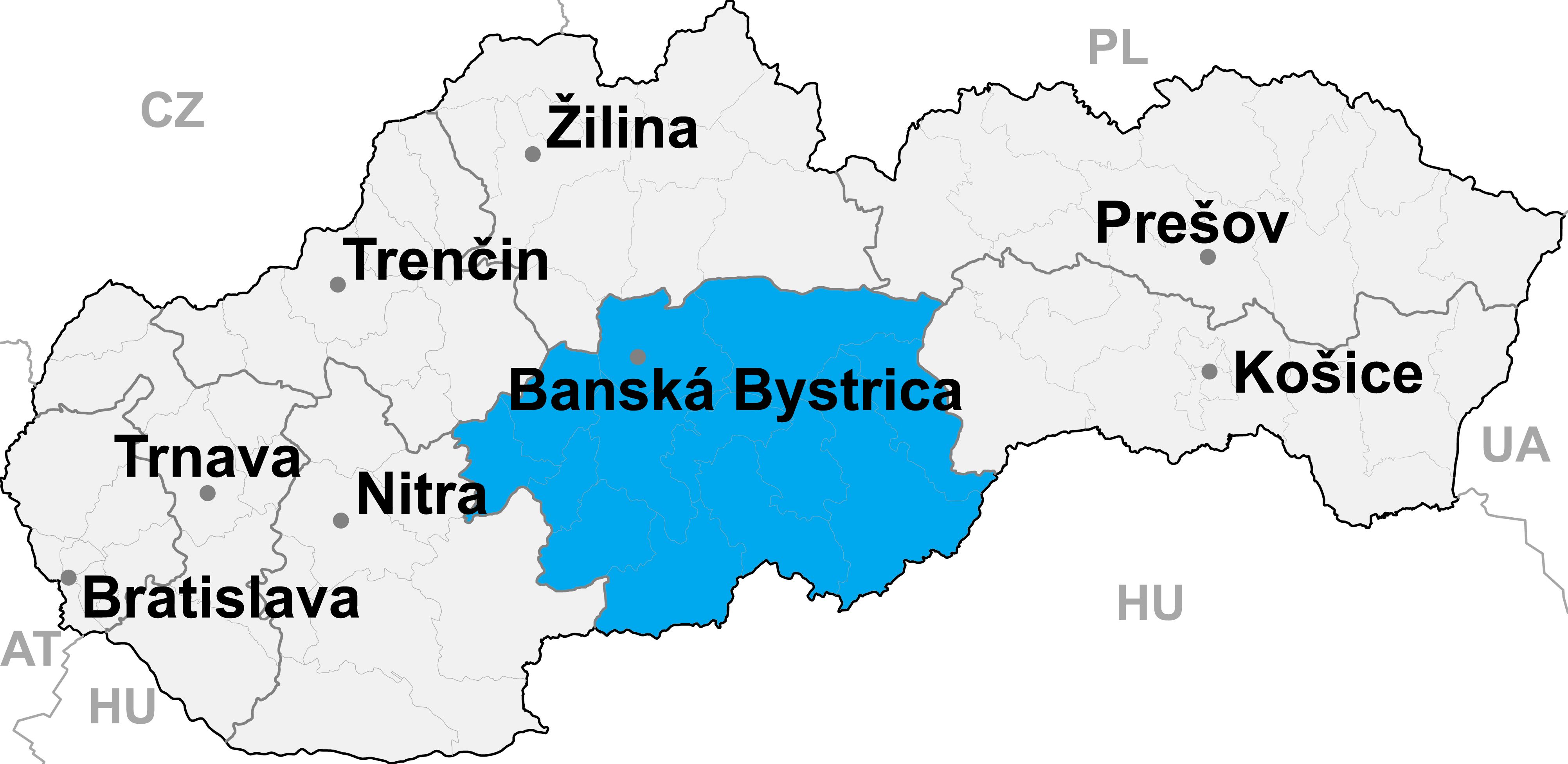 map of Slovakia, district (kraj) of Banská Bystrica highlighted in Banská Bystrica Region.